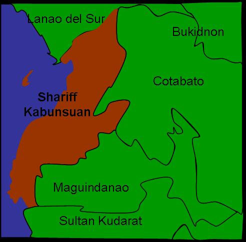 Location map showing the province of Shariff Kabunsuan